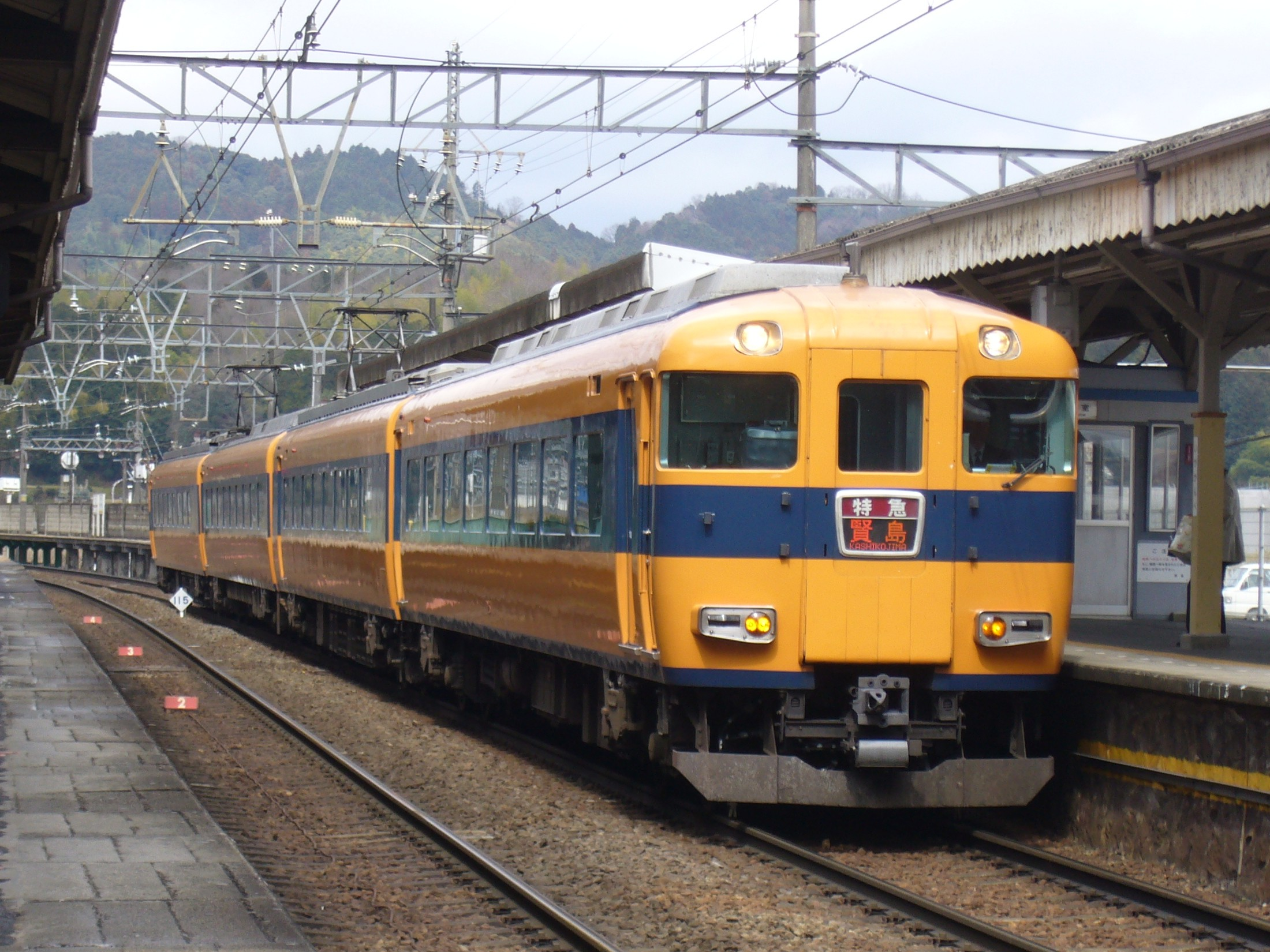 This is a picture of Kintetsu 12410 series.I took this picture at Iga-Kambe station.